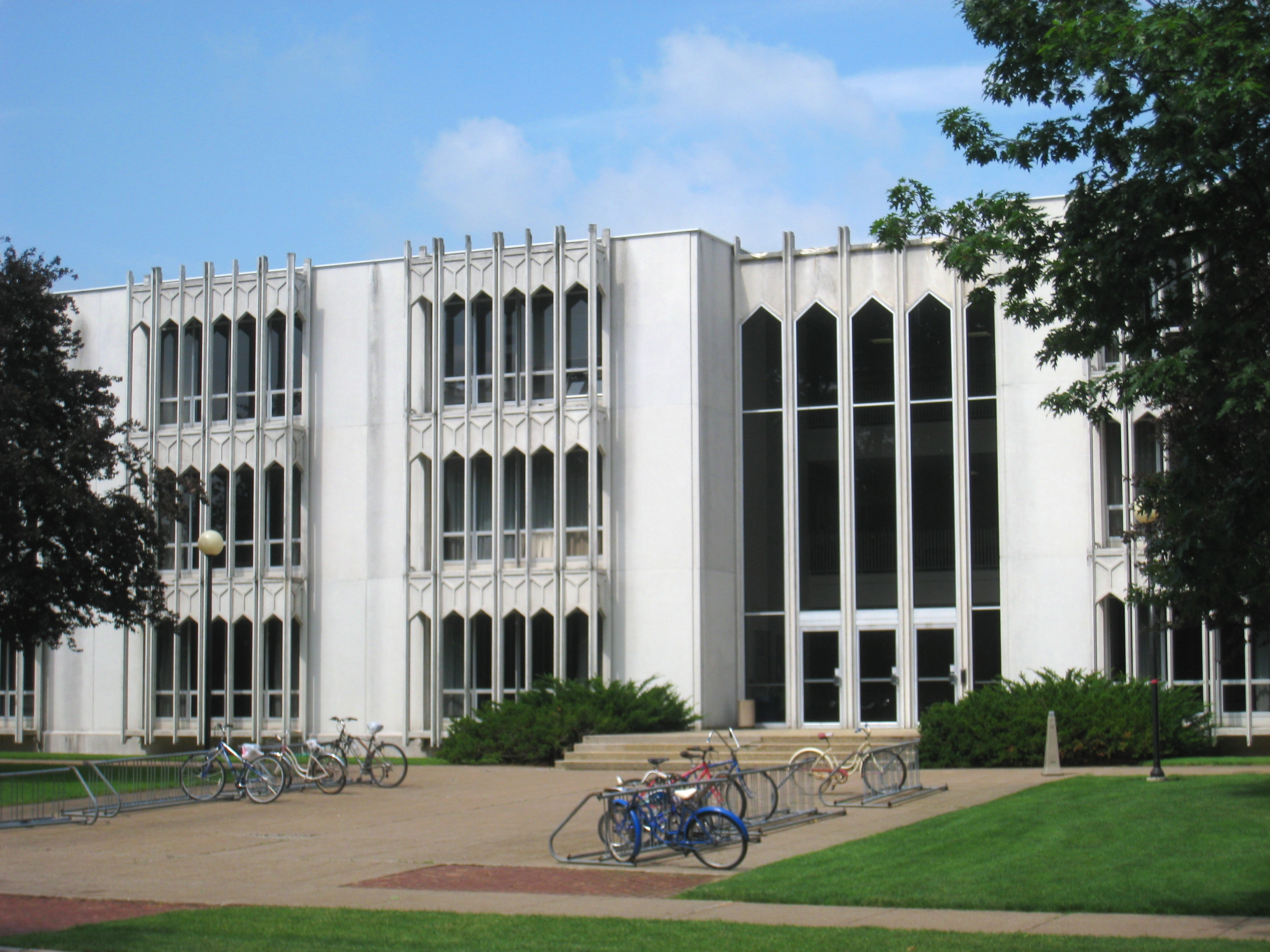 Entryway of King Building, Oberlin College, Oberlin, Ohio, USA. Architect Minoru Yamasaki, 1966. I took this photograph.